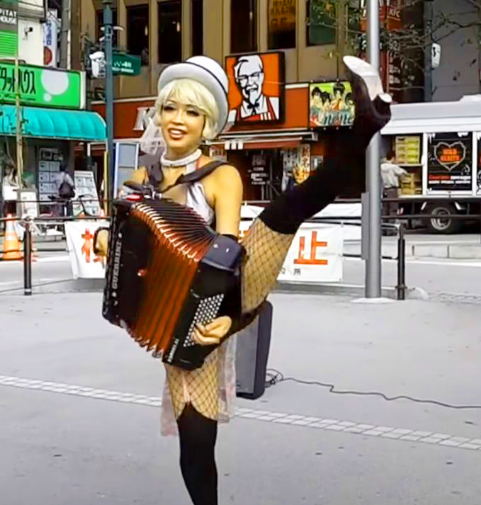 A sexy street performer, accordionist Accor de Nonnon, or Norie ANZAI. This photo was taken in October 12th, 2013, at Nakano City, Tokyo, Japan.